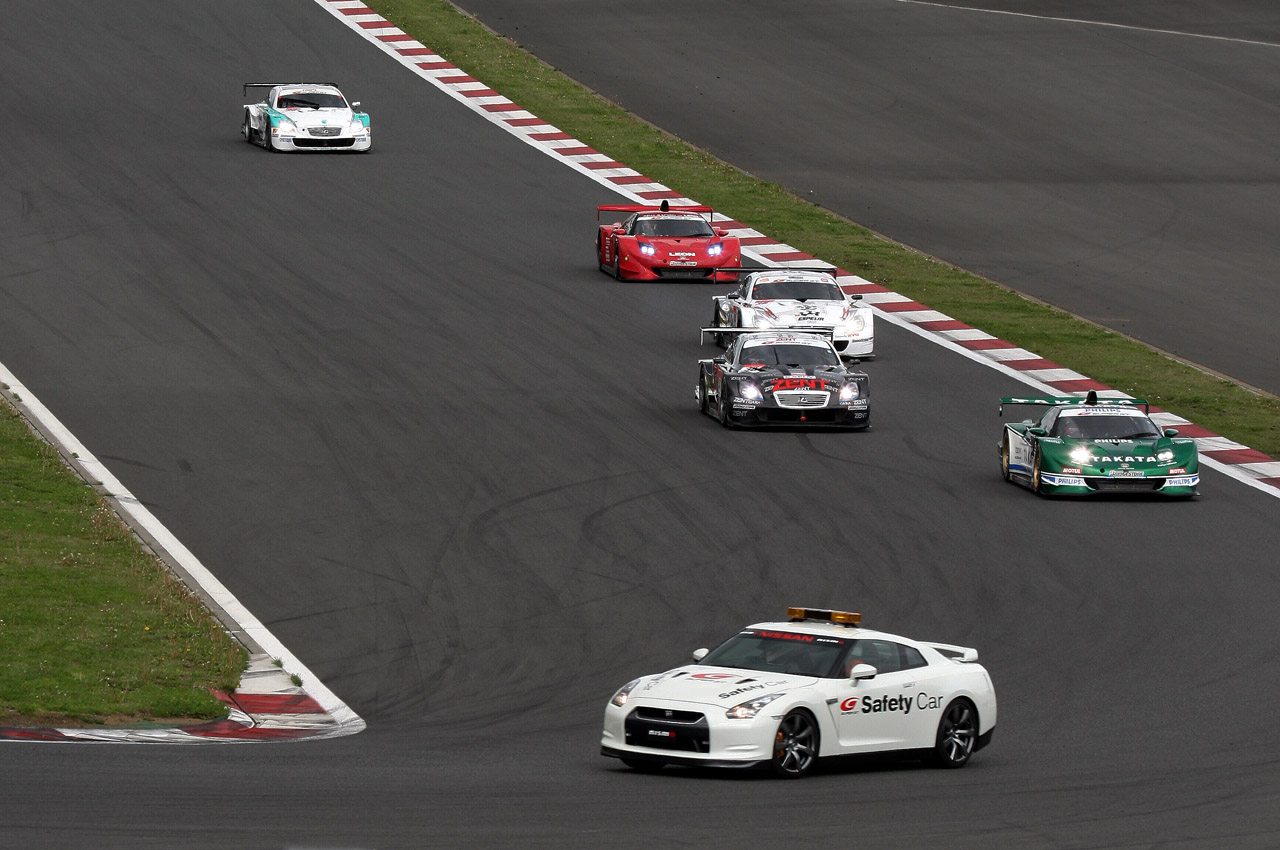 Super GT 2008 Rd.3: Safety Car leading the formation lap at the Dunlop corner.